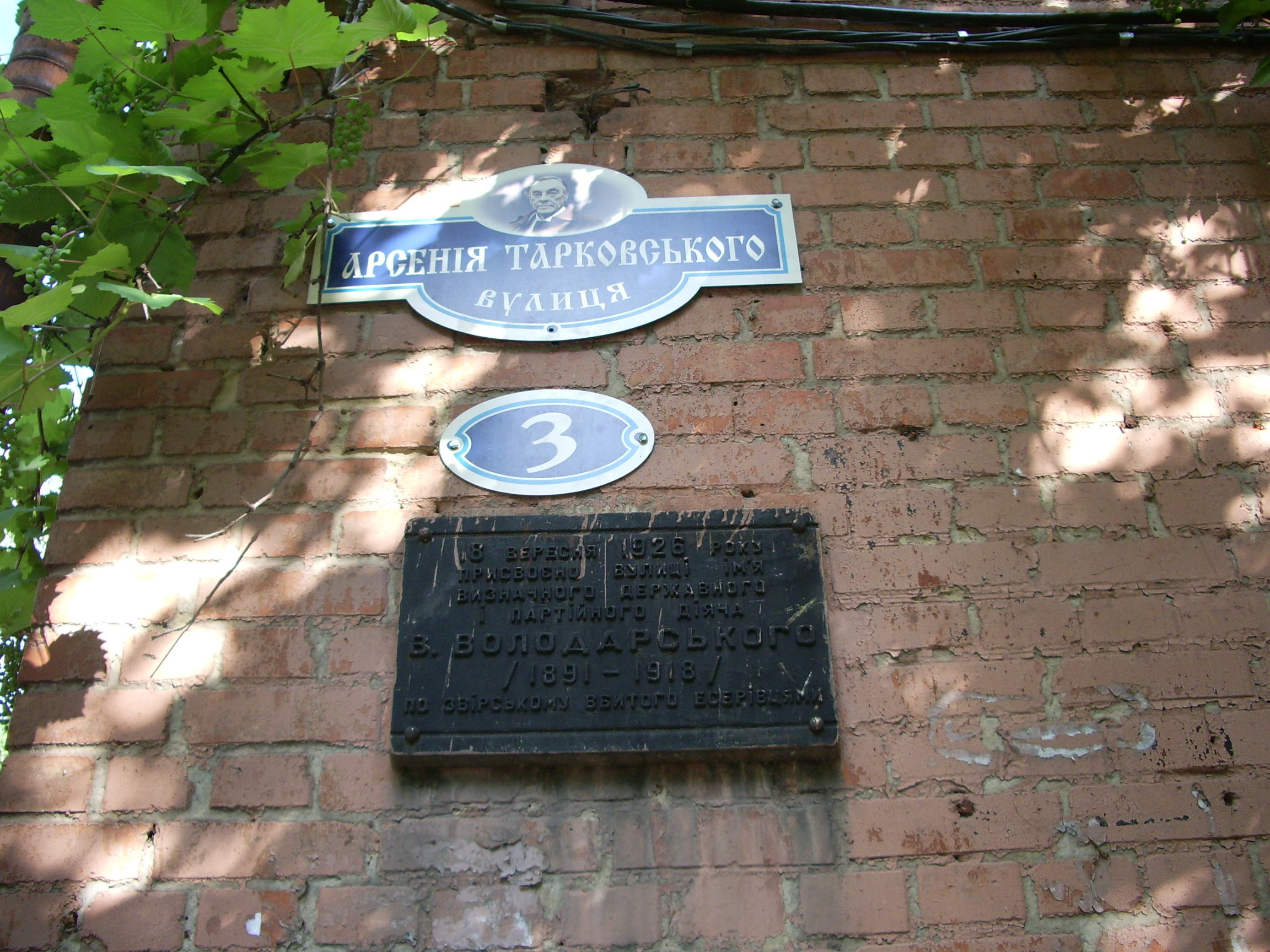 Sign and information plaque on Arseny Tarkovsky Street in the Leninsky District of Kirovograd, Ukraine